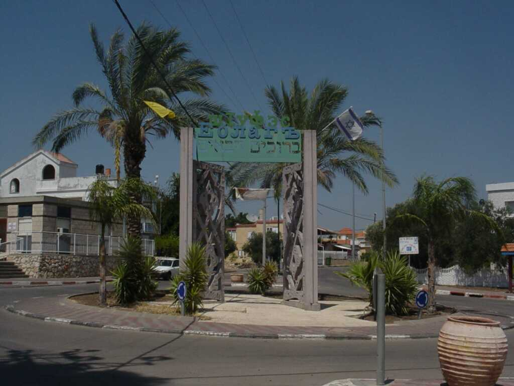 Welcome to Kfar Kama